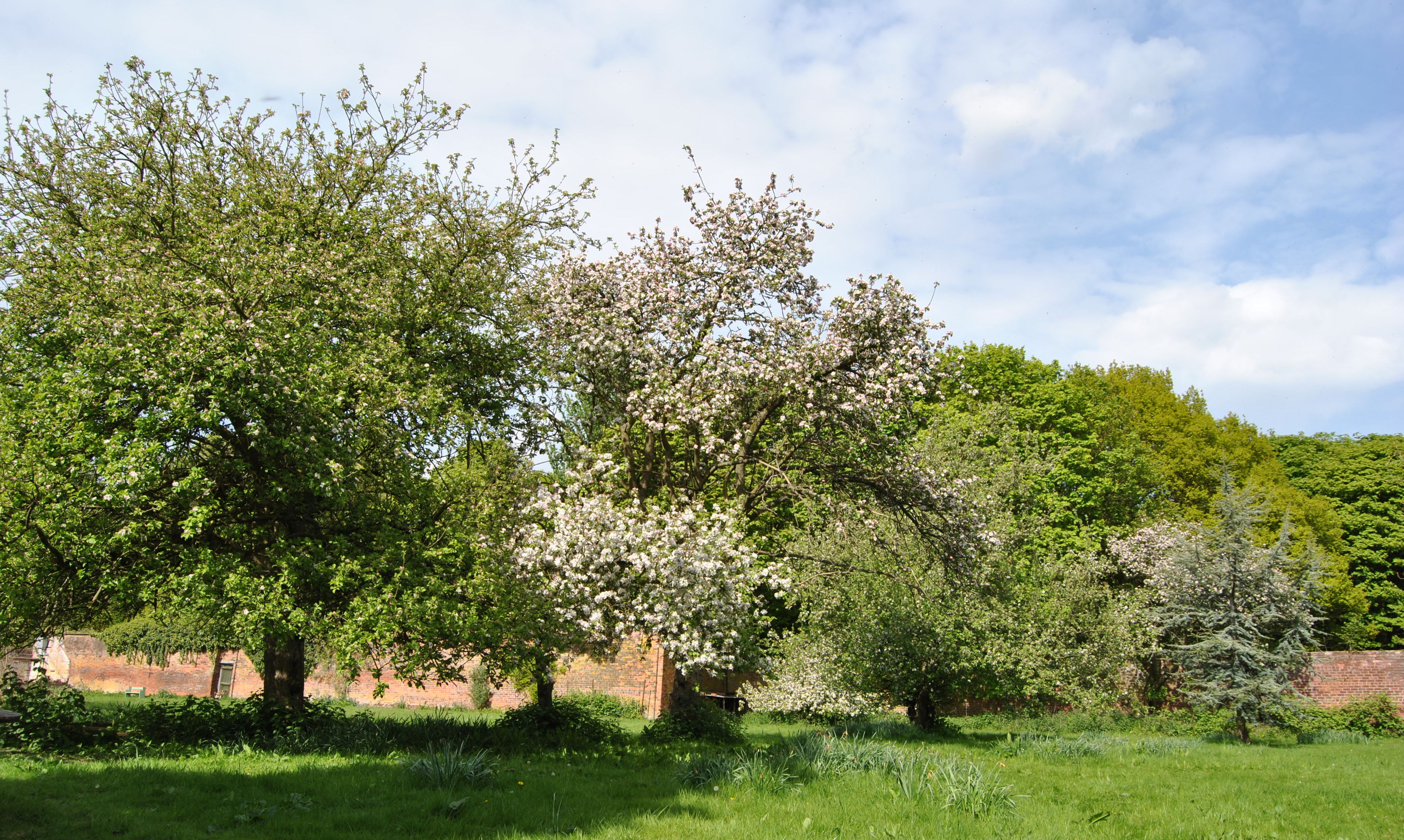 Apple trees in the Walled garden at Bank Hall May 2010. The far right blossom tree behind the cedar tree is a Laxton Superb Apple Tree.